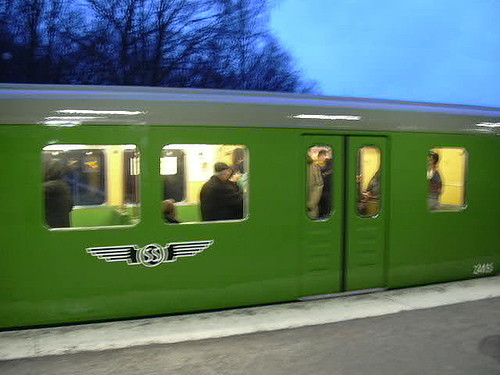 swedish veteran (1950'S) subway train wagon, exterior